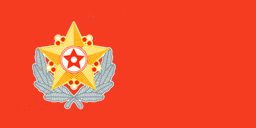 Flag of the Supreme Commander of the Korean People's Army